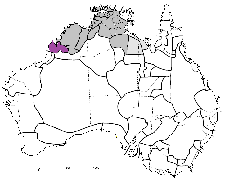 Nyulnyulan languages (purple), among other non-Pama-Nyungan languages (grey)